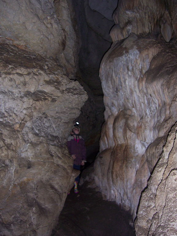 Picture of flowstone in entry gallery of Crousate cave near town Gramat in France.